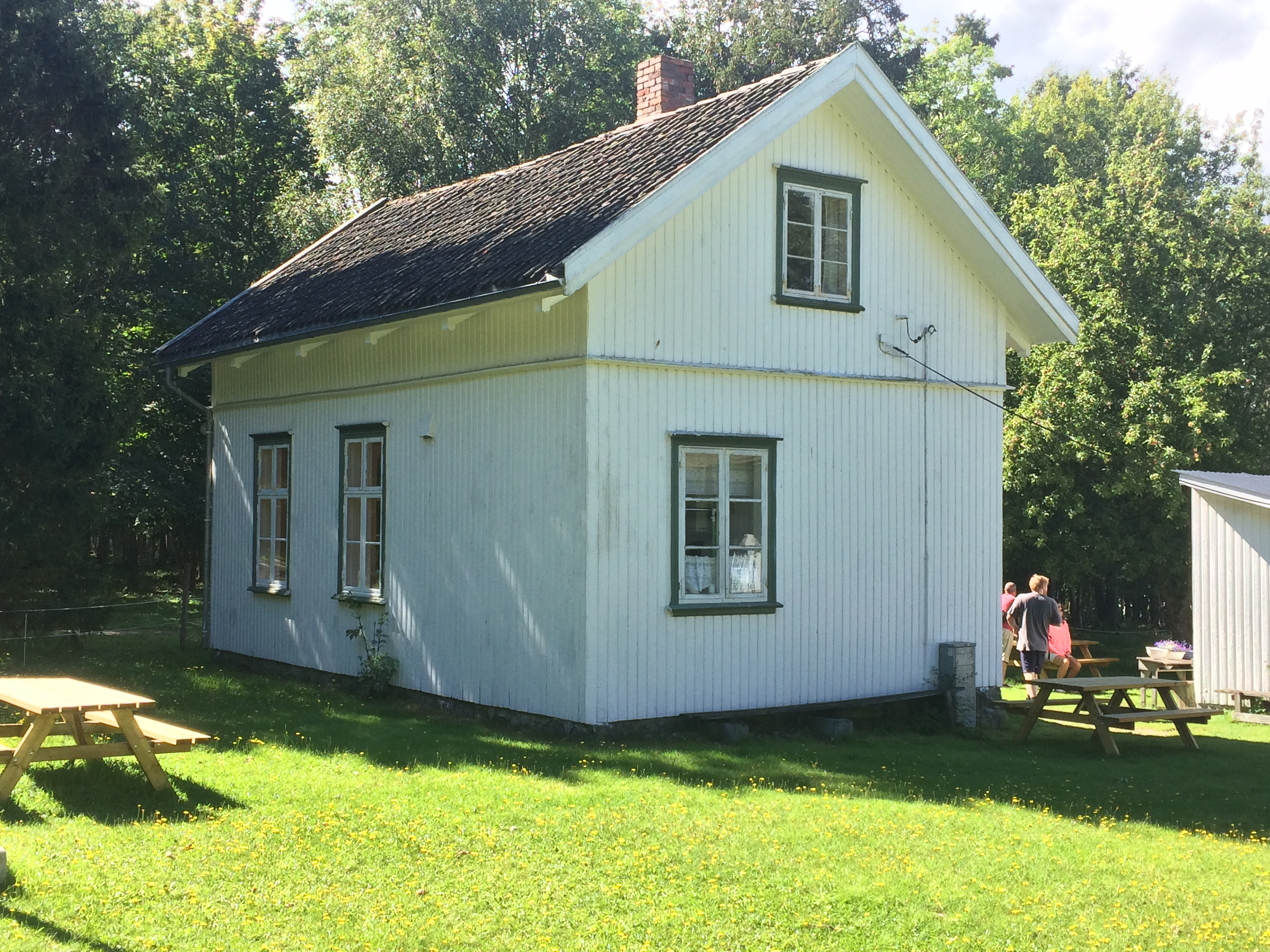 Schoolhouse on the island Jomfruland, Telemark, Norway.